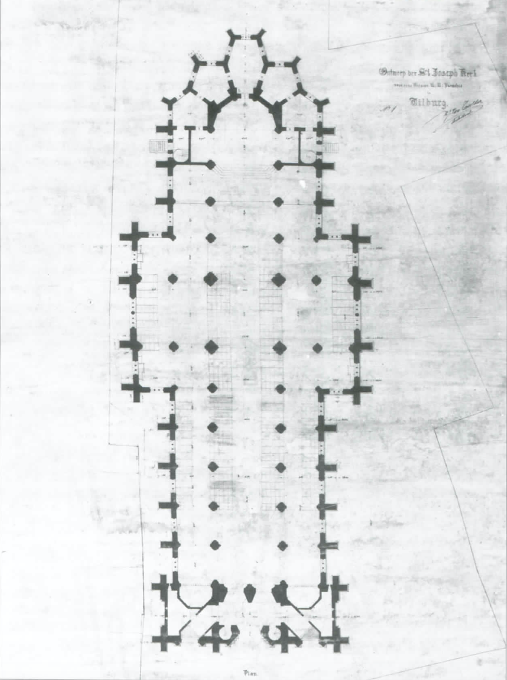 Floorplan of the Heuvelse kerk before the extension of the transepts